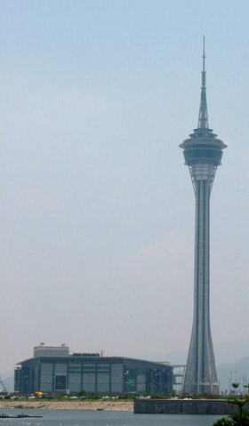 Macau Tower, Macau. Photo taken 28 May 2002 copyright Richard Gallagher. Permission is granted to copy, distribute and/or modify under the GFDL, version 1.2 any later version published by the Free Software Foundation; with no Invariant Sections, with no Front-Cover Texts, and with no Back-Cover Texts.